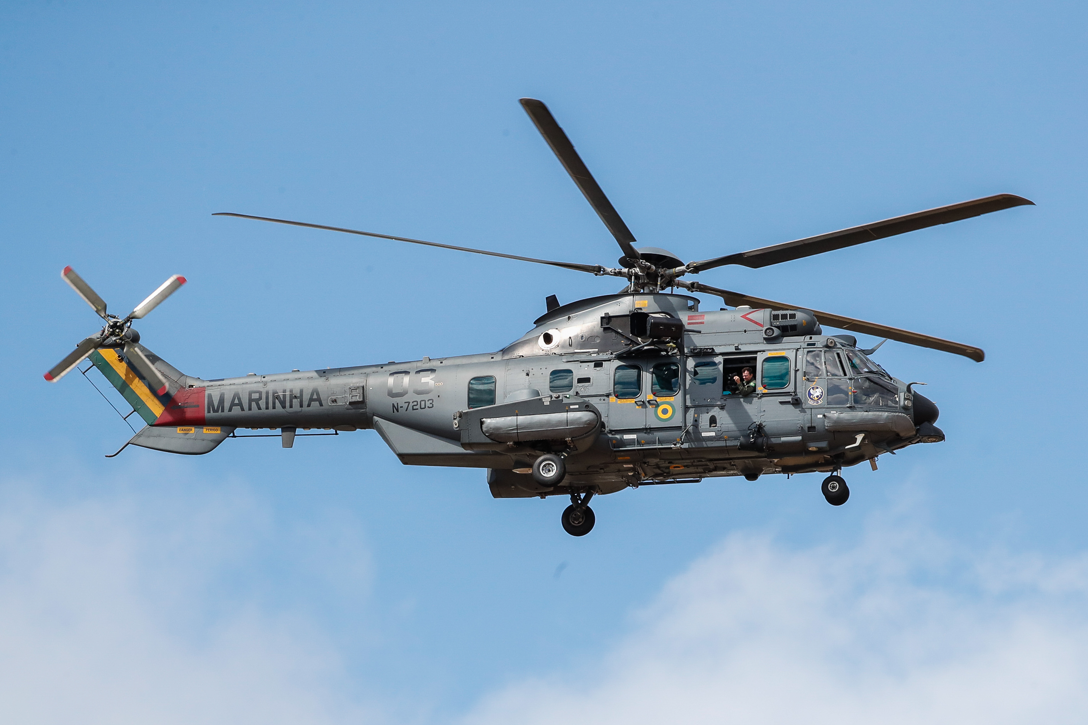 (Brasília - DF, 07/09/2019) Presdiente da República, Jair Bolsonaro, durante desfile Cívico por ocasião do Dia da Pátria Foto: Alan Santos/PR